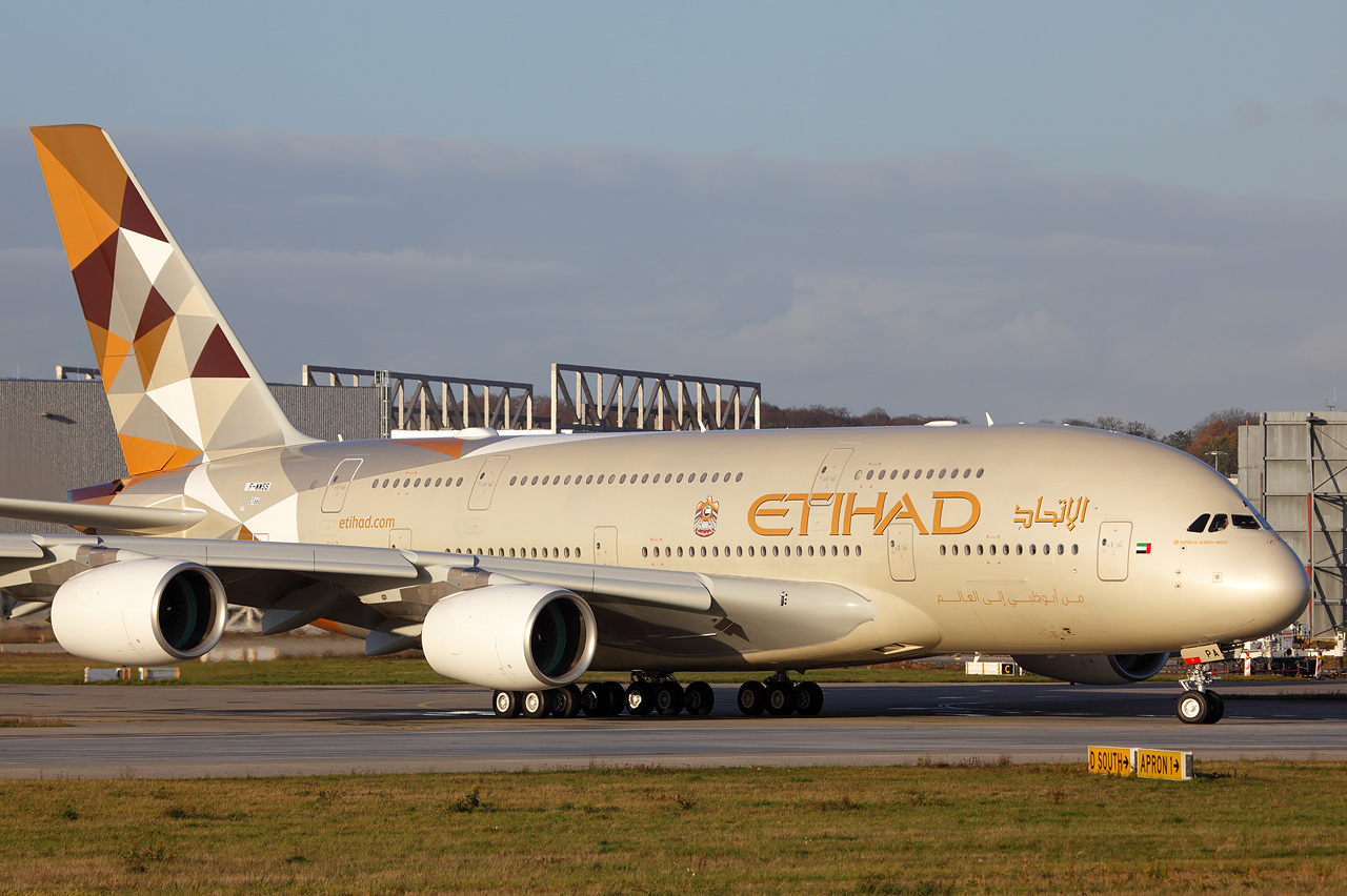 Etihad Airways Airbus A380-861 at Finkenwerder